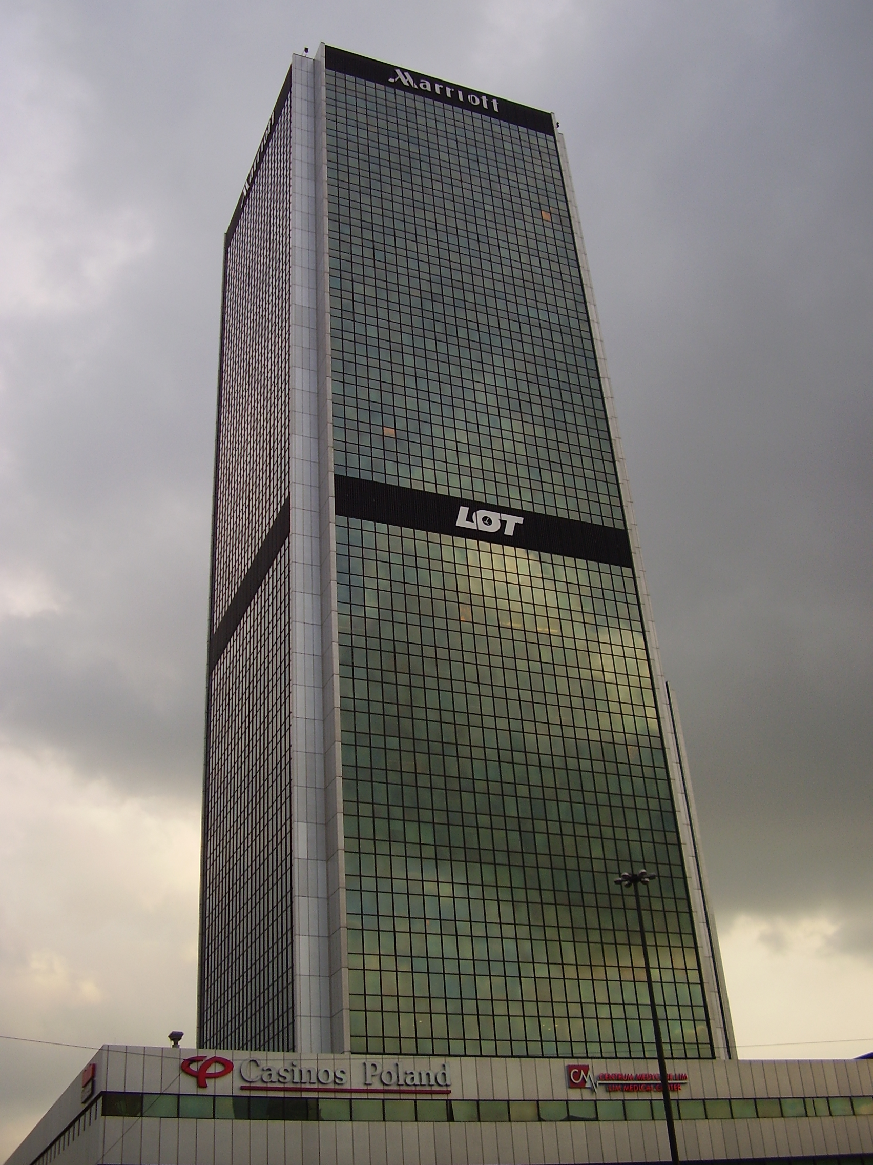 Warsaw during Easter 2008